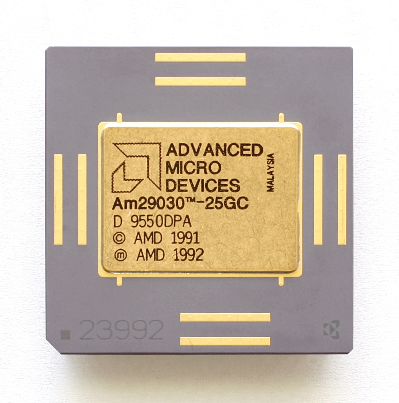 CPU AMD Am29030